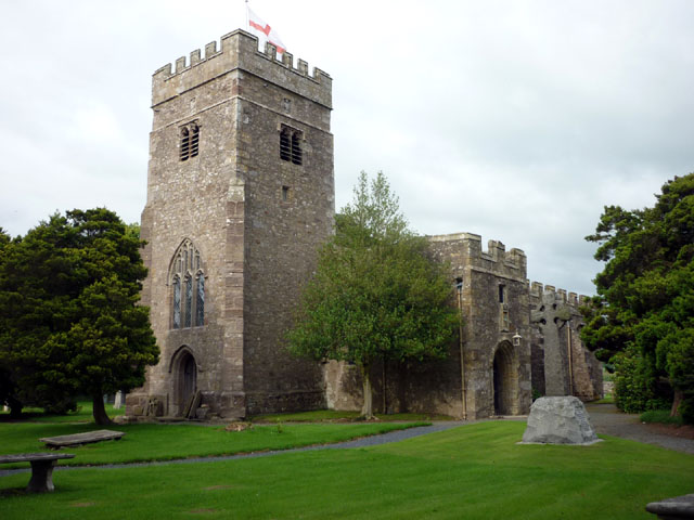 St John the Baptist parish church, Tunstall, Lancashire, seen from the southwest